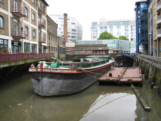 Battersea: Ransome's Dock (1) This is one of the last surviving docks built off the River Thames upstream of the Tower of London. The dock is dog-legged with a narrow straight section leading off the river, with this wider dock to the south. The 1874 Edition of the Ordnance Survey mapping shows only the straight section, but by the time the 1896 Edition was published this pool is shown too. The brick chimney may have been part of the foundry shown on the 1874 map, while 828344 peeps out behind it. Ransome's Dock Restaurant is on the left.